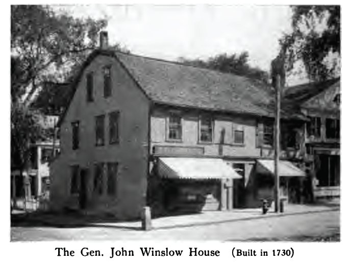 Photograph of General John Winslow's house, built 1730 in Plymouth Ma.